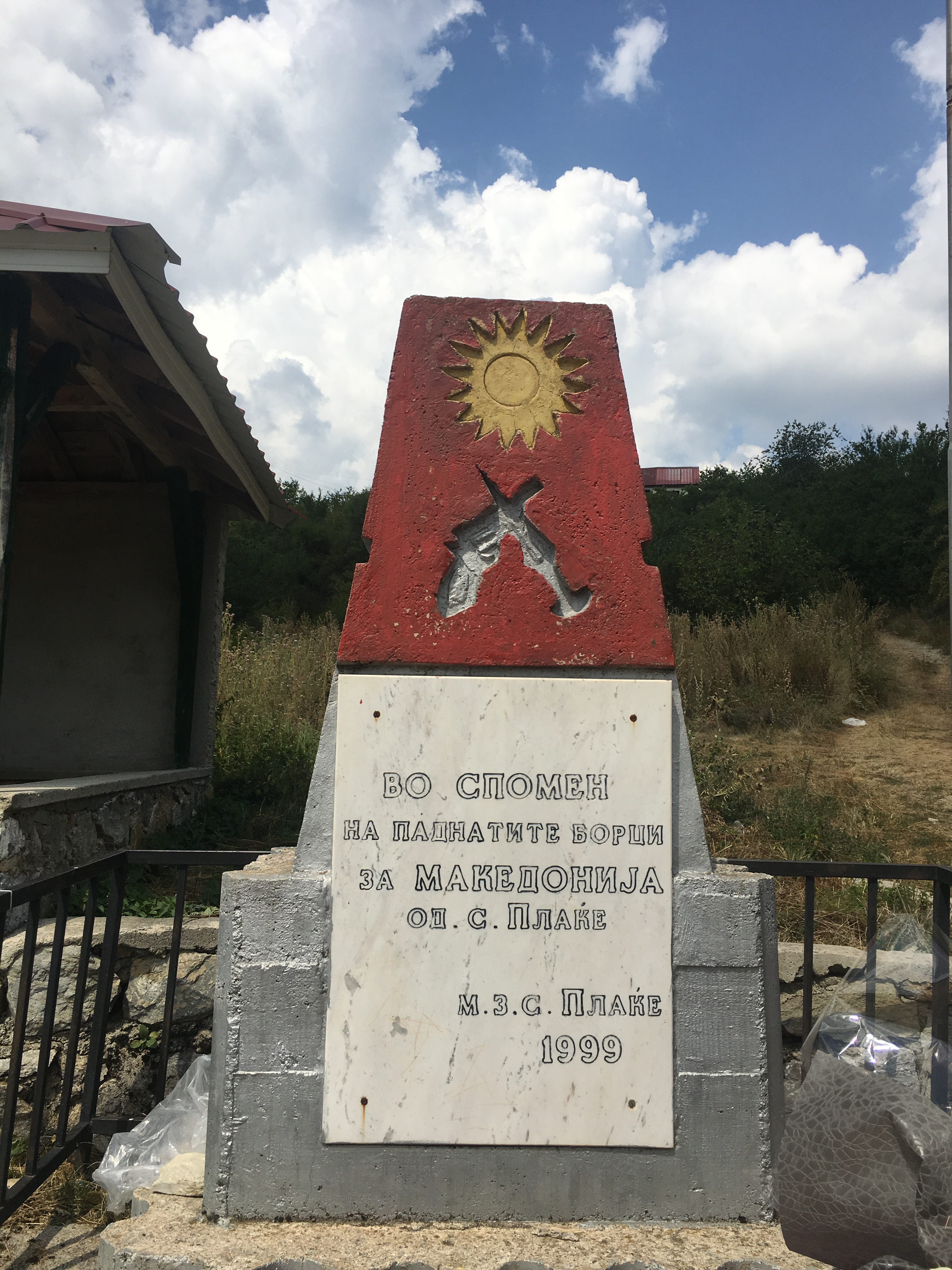 A monument on Ilinden Square in the village of Plaḱe